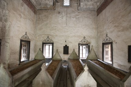 Interior view of the mausoleum of Gülruh Hatun